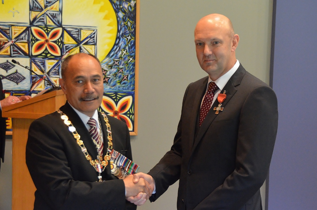 Scott Carter, of Auckland, after his investiture as MNZM, for services to sport, by the governor-general, Sir Jerry Mateparae, on 7 May 2015